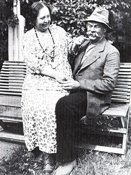 Hugo Jacobsson (1891-1950) and Mona Geijer-Falkner (1887-1973)